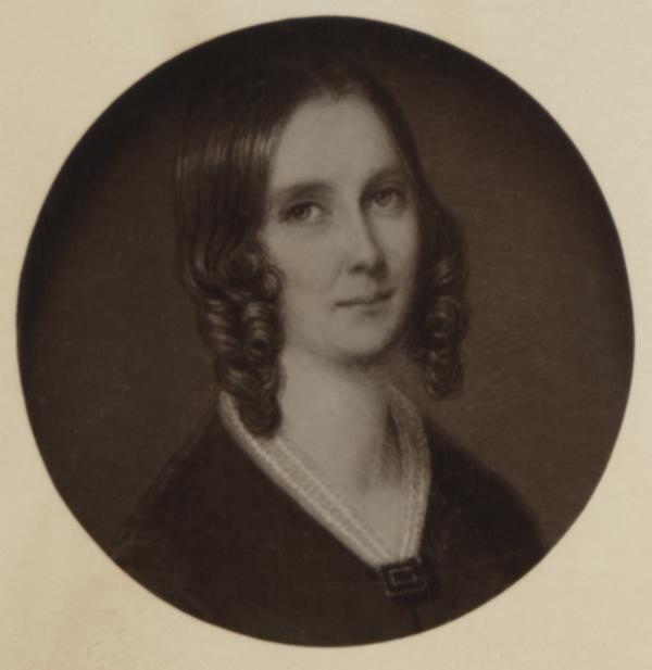 Title Anne (Ridgeley) du Pont portrait Date Created (start) 1830 Date Created (end) 1850 Former owner Du Pont, Pierre S. (Pierre Samuel), 1870-1954 Subject(s) - Name Du Pont, Ann Ridgely, 1815-1898 Find all items with name(s) Du Pont, Pierre S. (Pierre Samuel), 1870-1954 Du Pont, Ann Ridgely, 1815-1898 Genre paintings